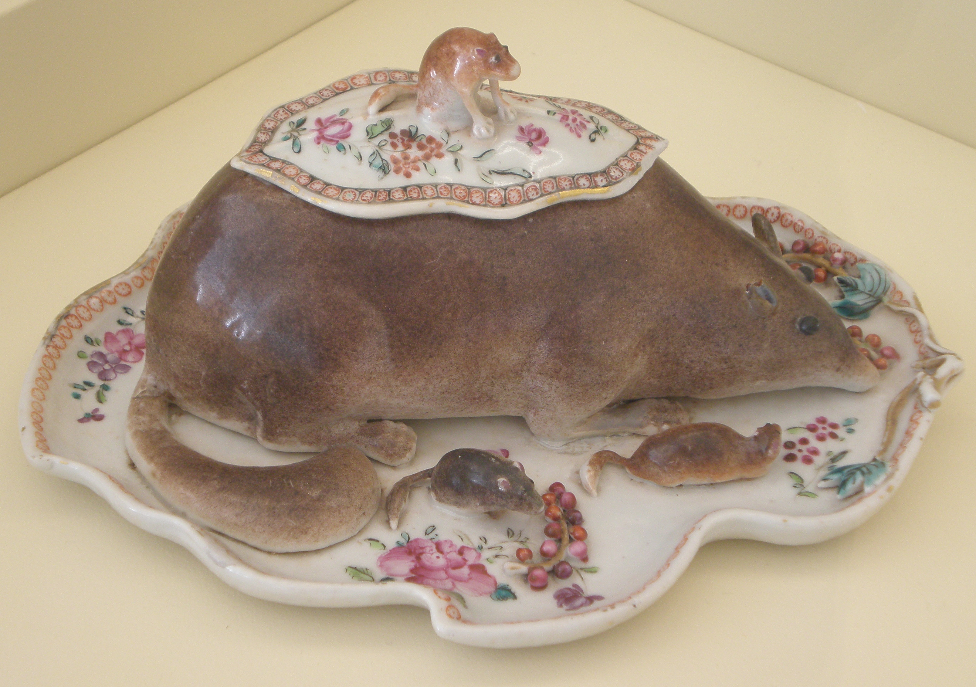 Covered dish in the shape of a dormouse, Chinese Jingdezhen ware, ca. 1760. On display at the California Palace of the Legion of Honor in San Francisco. 1953.20a-b